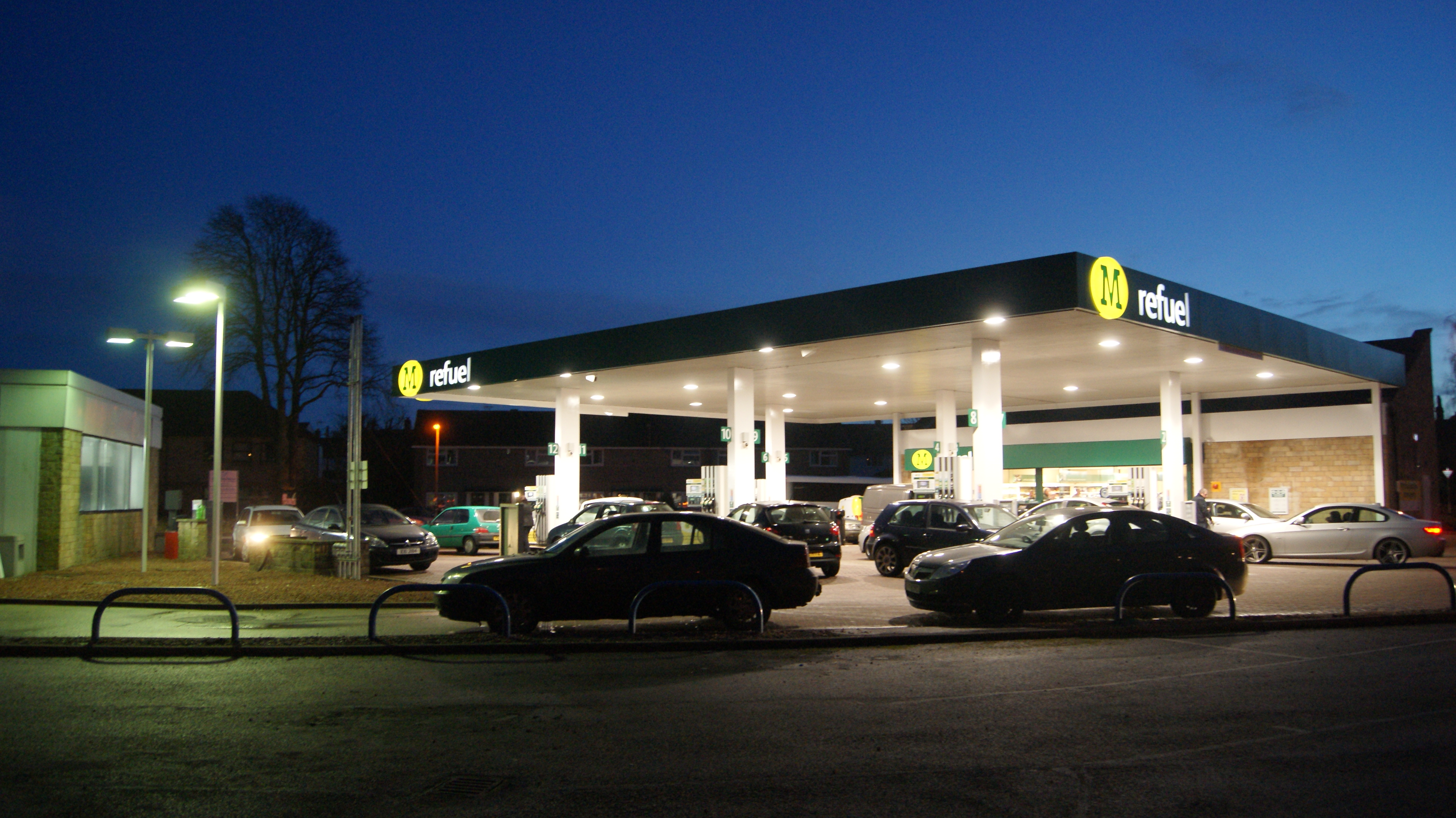 Morrison's petrol station in Wetherby, West Yorkshire. This replaced the Esso station in the last couple of months of 2012, ending 24 hour service in the centre of Wetherby, greatly inconveniencing many. Morrison's it would seem are slowly buying up the entire centre of Wetherby, sucking life and commerce from the whole town. This site can be seen exactly a year earlier here File:Esso station from Deighton Road, Wetherby (1st February 2012).JPG. Taken on the evening of Friday the 1st of February 2013.